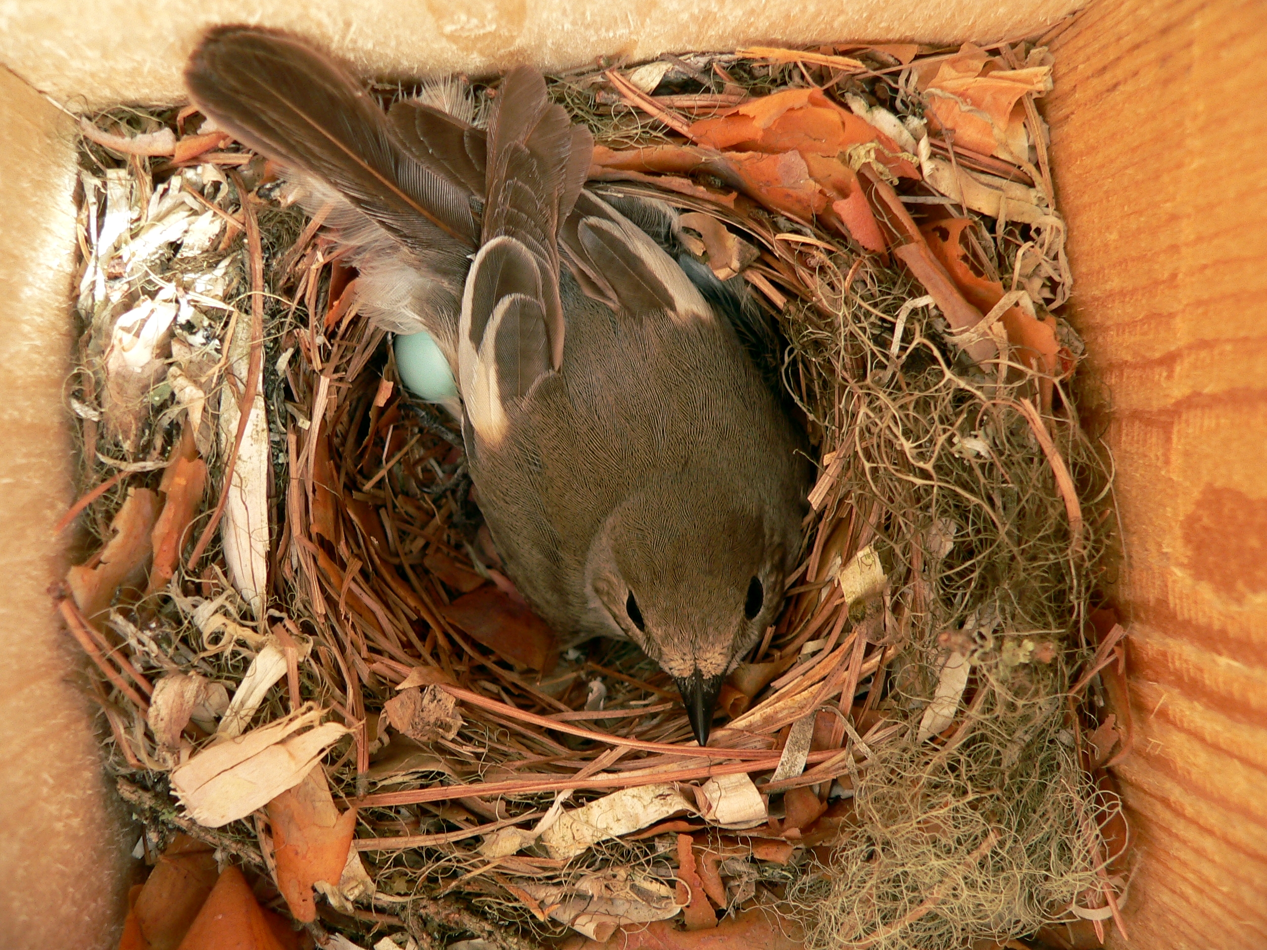 Pied flycatcher (Ficedula hypoleuca), female on nest and egg; picture taken in the Etelä-Pohjanmaa region (Finland)